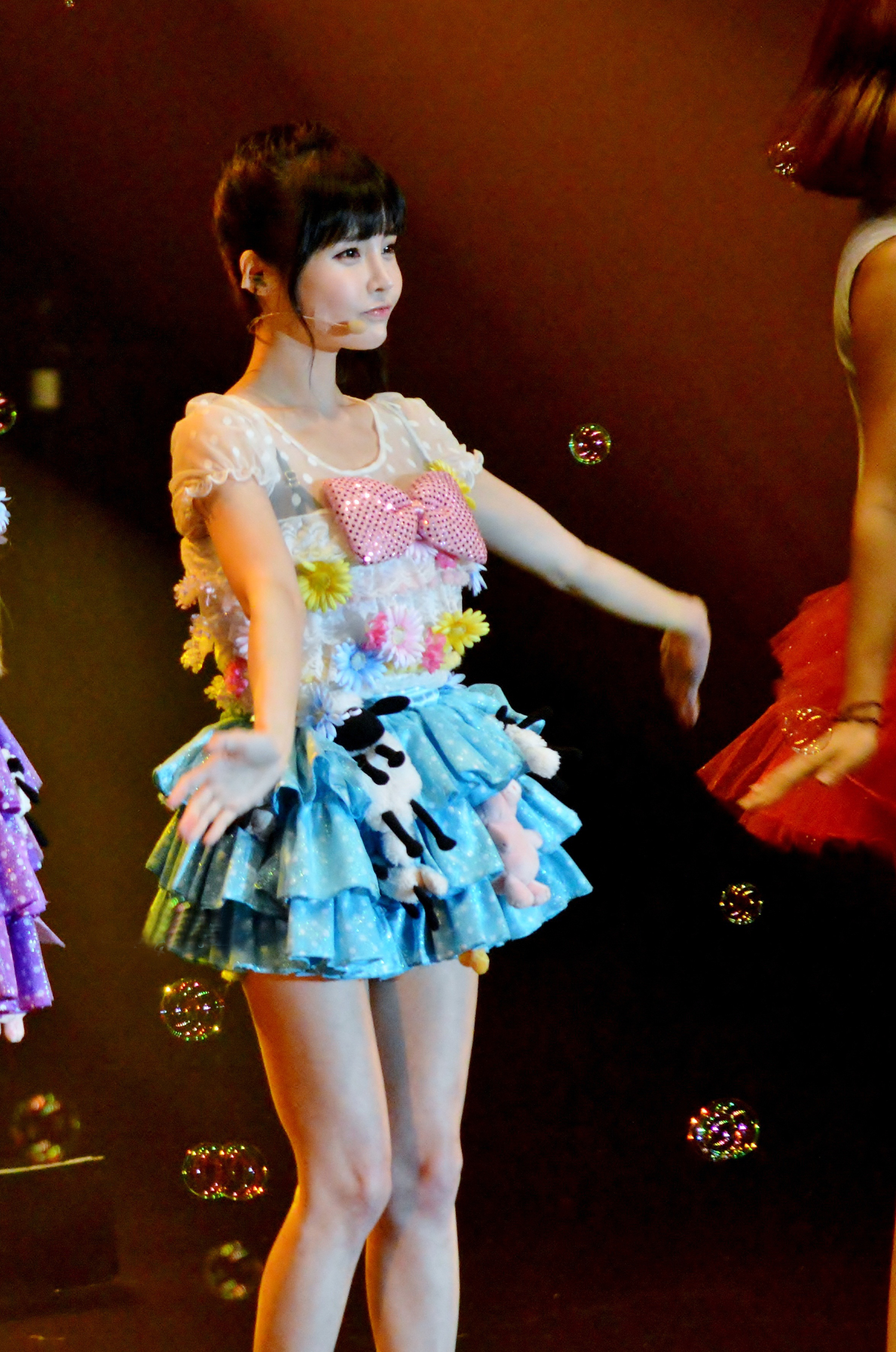 Jeon Boram performing in Hong Kong, in August 10, 2013.